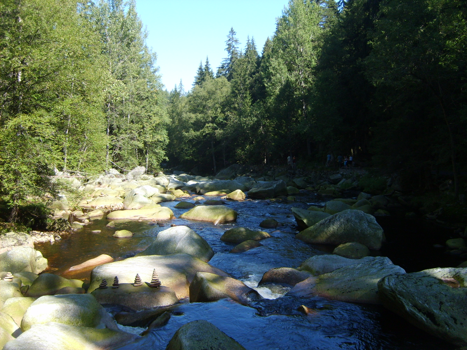 Vydra river valley near Turnerova chata.